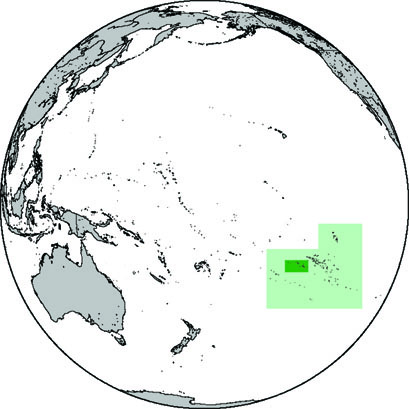 Map of the location of the Tahitian Language